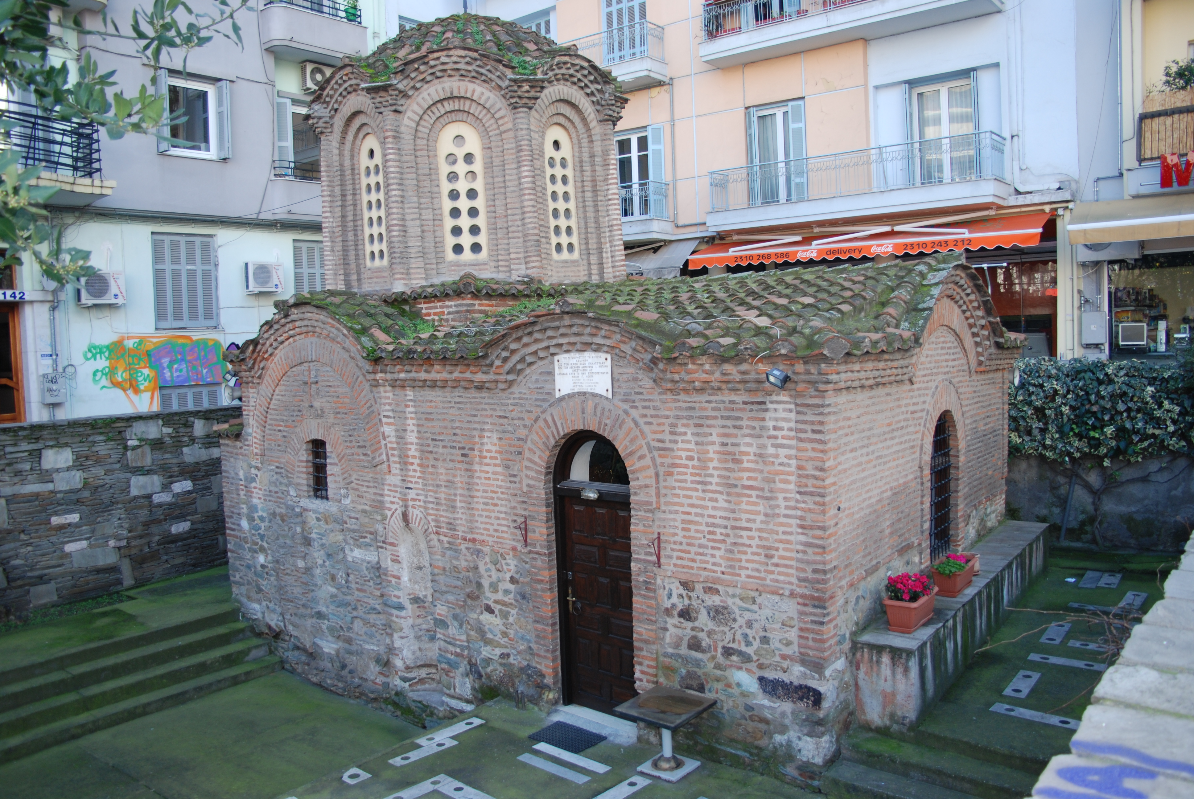 Transfiguration of Jesus Church in Thessaloniki by George Groutas